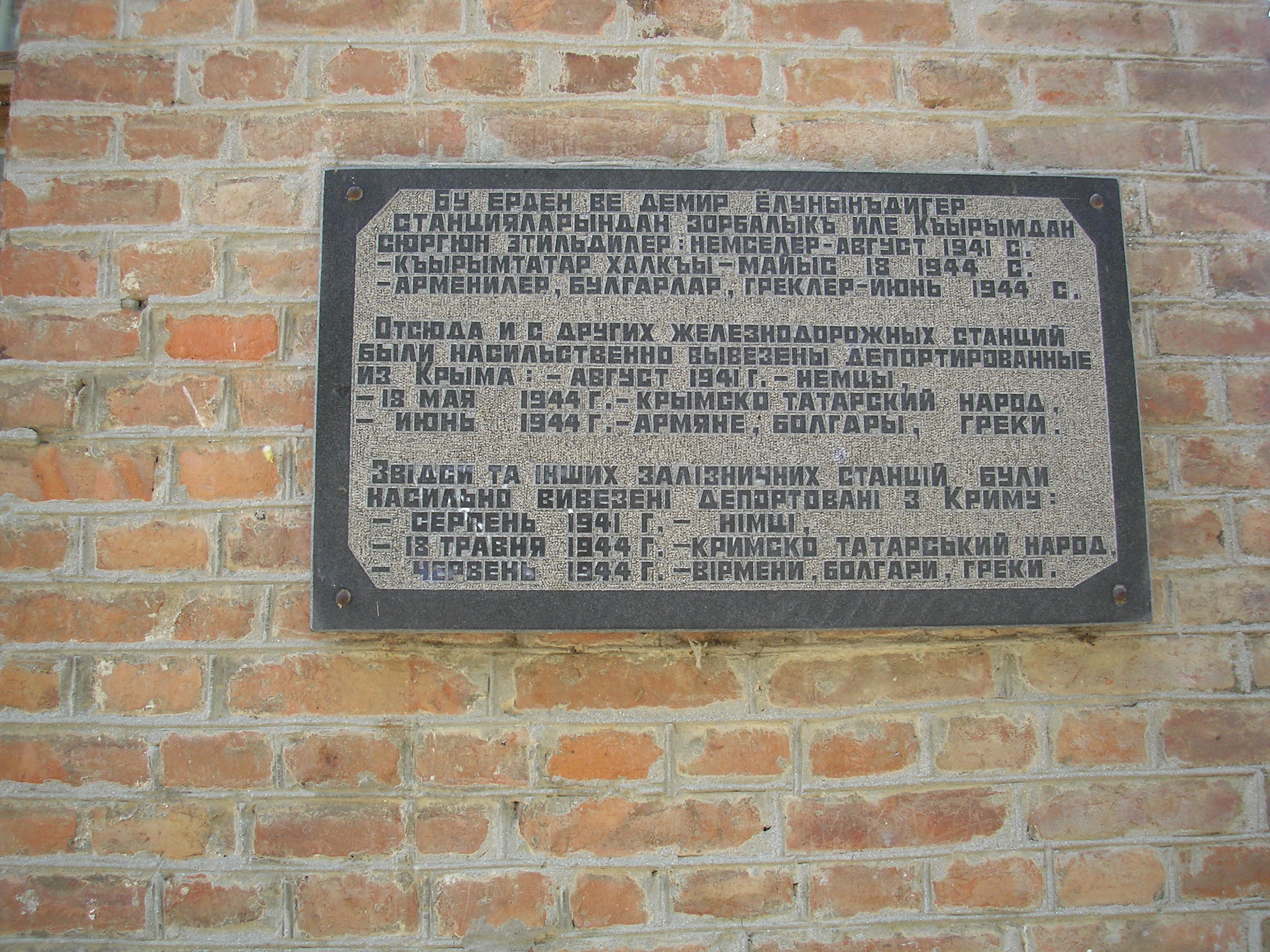 A plaque on the building of the station Siren of the railway road, Crimea